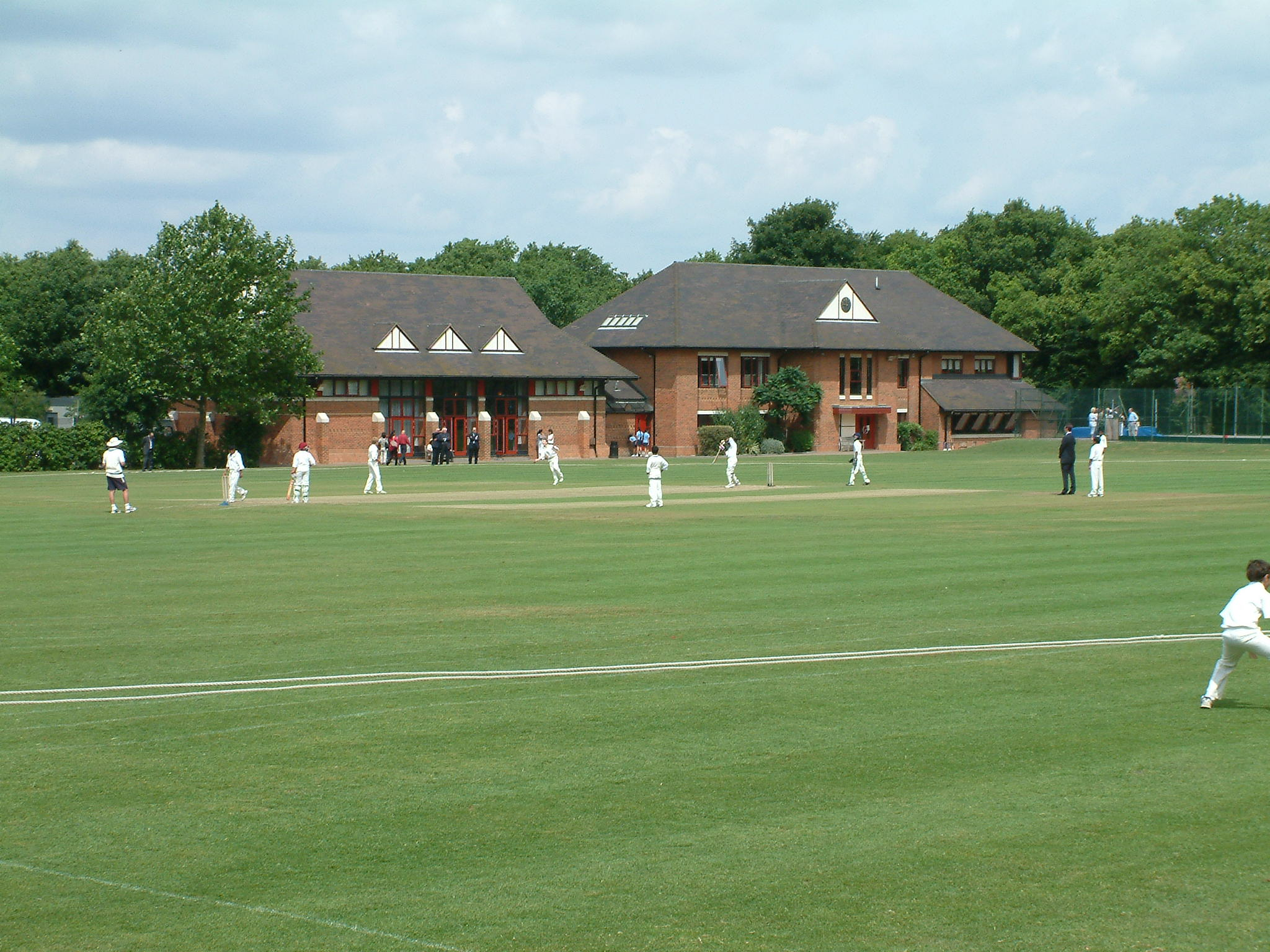 Cricket match in front of the prep school at Bancroft's School, Woodford Green, Essex.